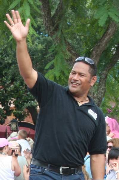 Jay Laga'aia rides in a parade at Star Wars Weekend at the Disney Hollywood Studios in Orlando, FL